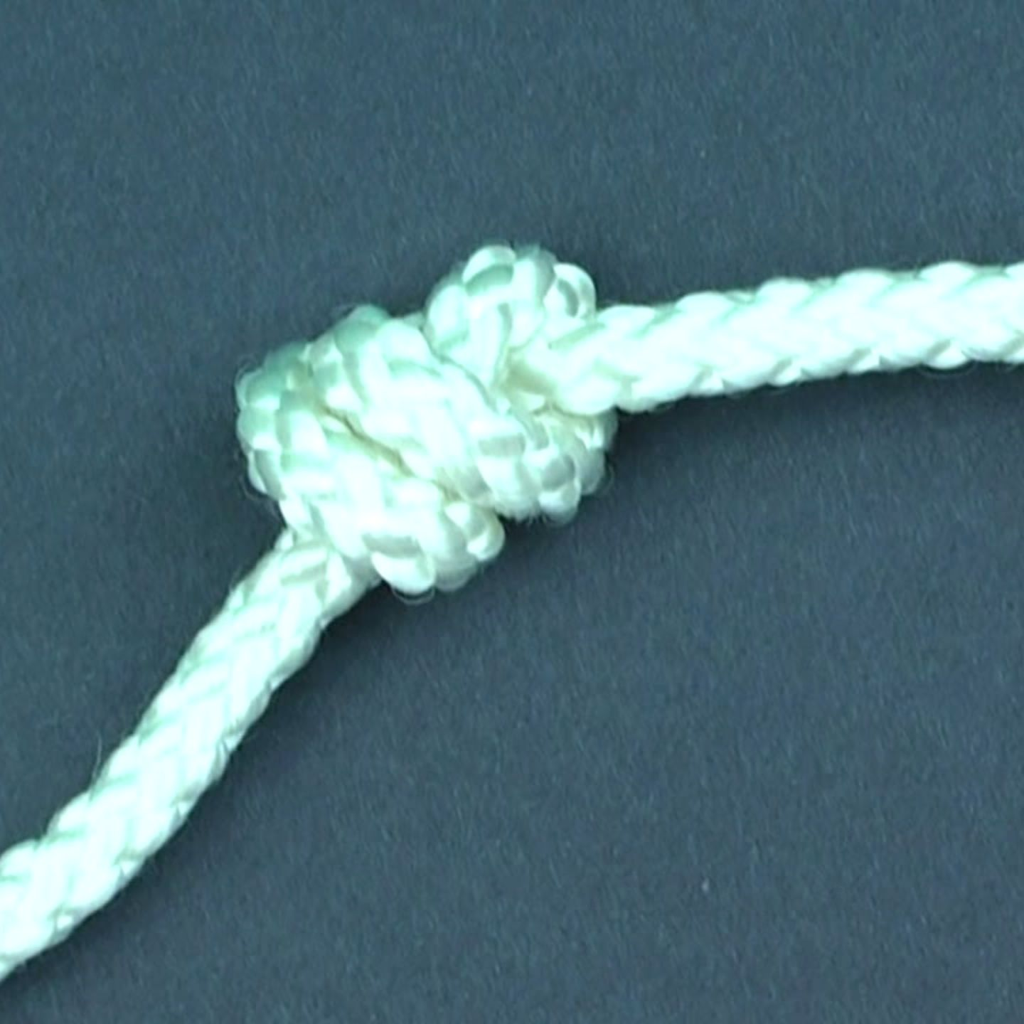 A Stevedore knot